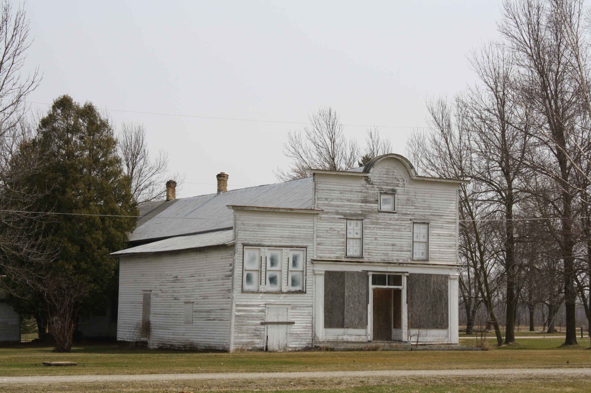 The retail store in the Haese Memorial Historic District in Forest Junction, Wisconsin.